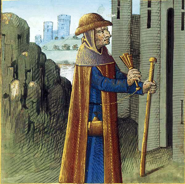 Leper with a clapper, from Bartholomeus Anglicus, BNF fr. 9140, s. xv1/2, f. 15v